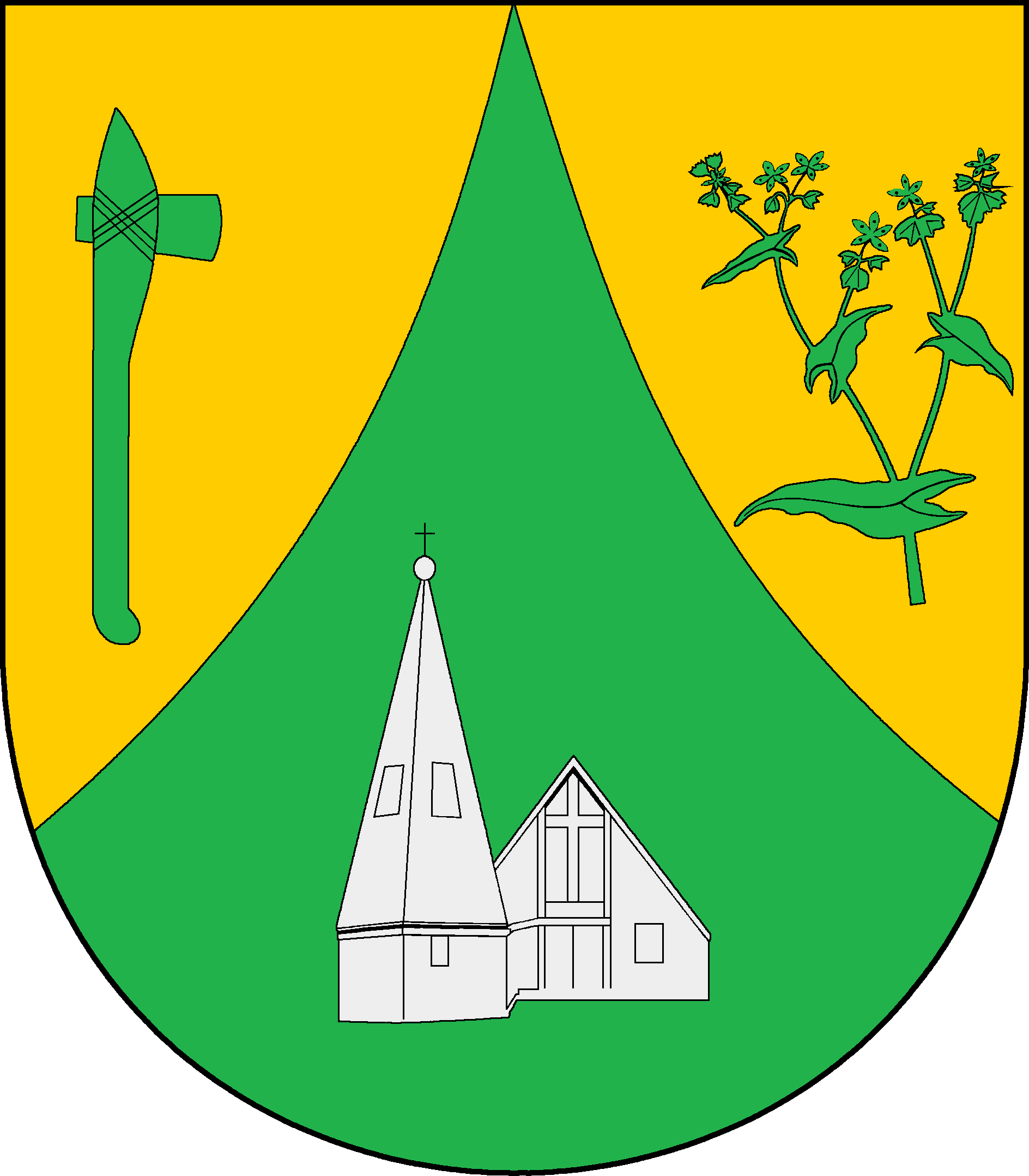 Coat of arms of the municipality Gnutz in Schleswig-Holstein, Germany.